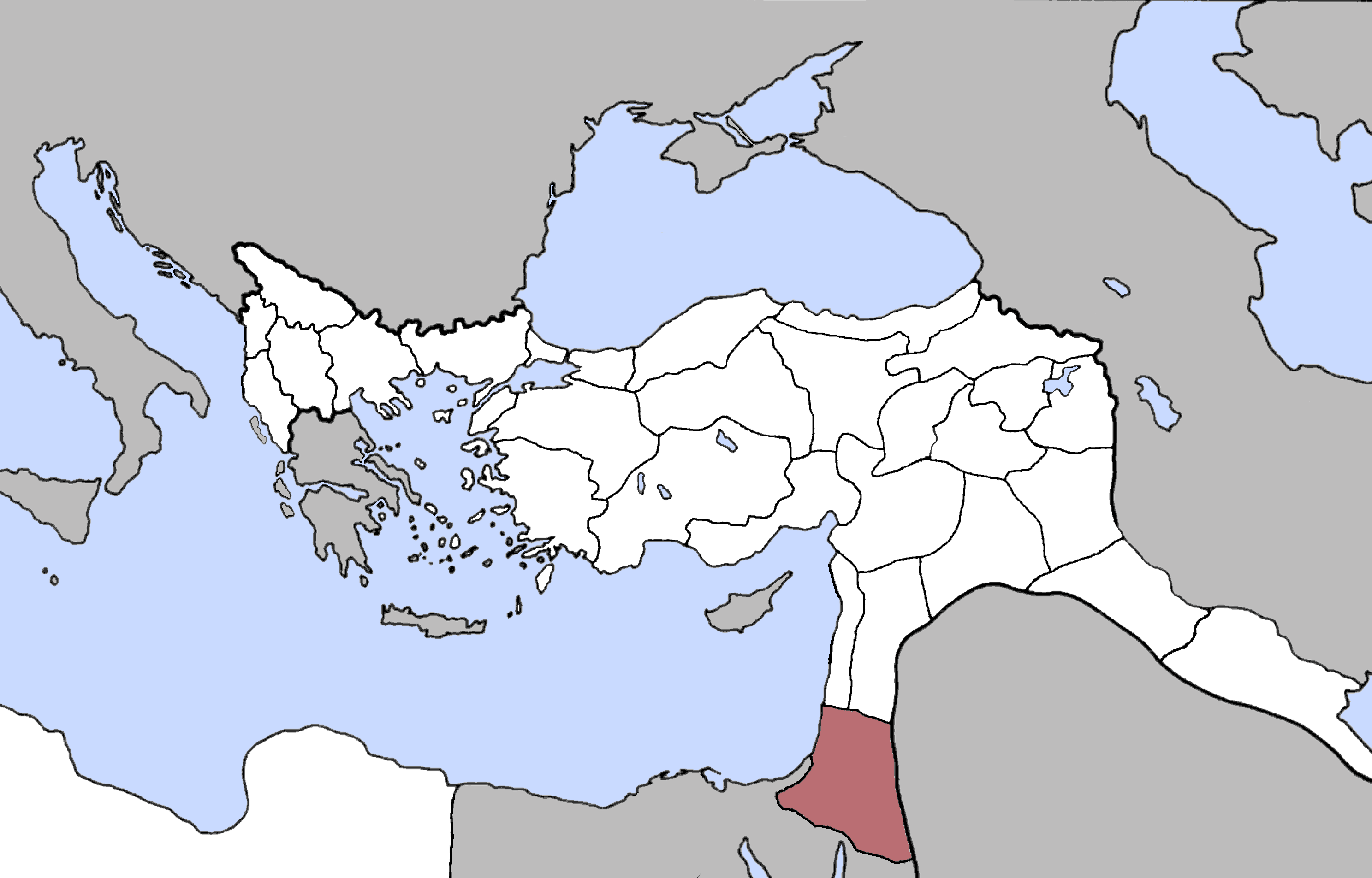 XY Vilayet, Ottoman Empire (1900). Source: An Economic and Social History of the Ottoman Empire, Volume 2 at Google Books By Suraiya Faroqhi, Bruce McGowan, Donald Quataert, Sevket Pamuk